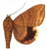 PLATE CCXXVIII.